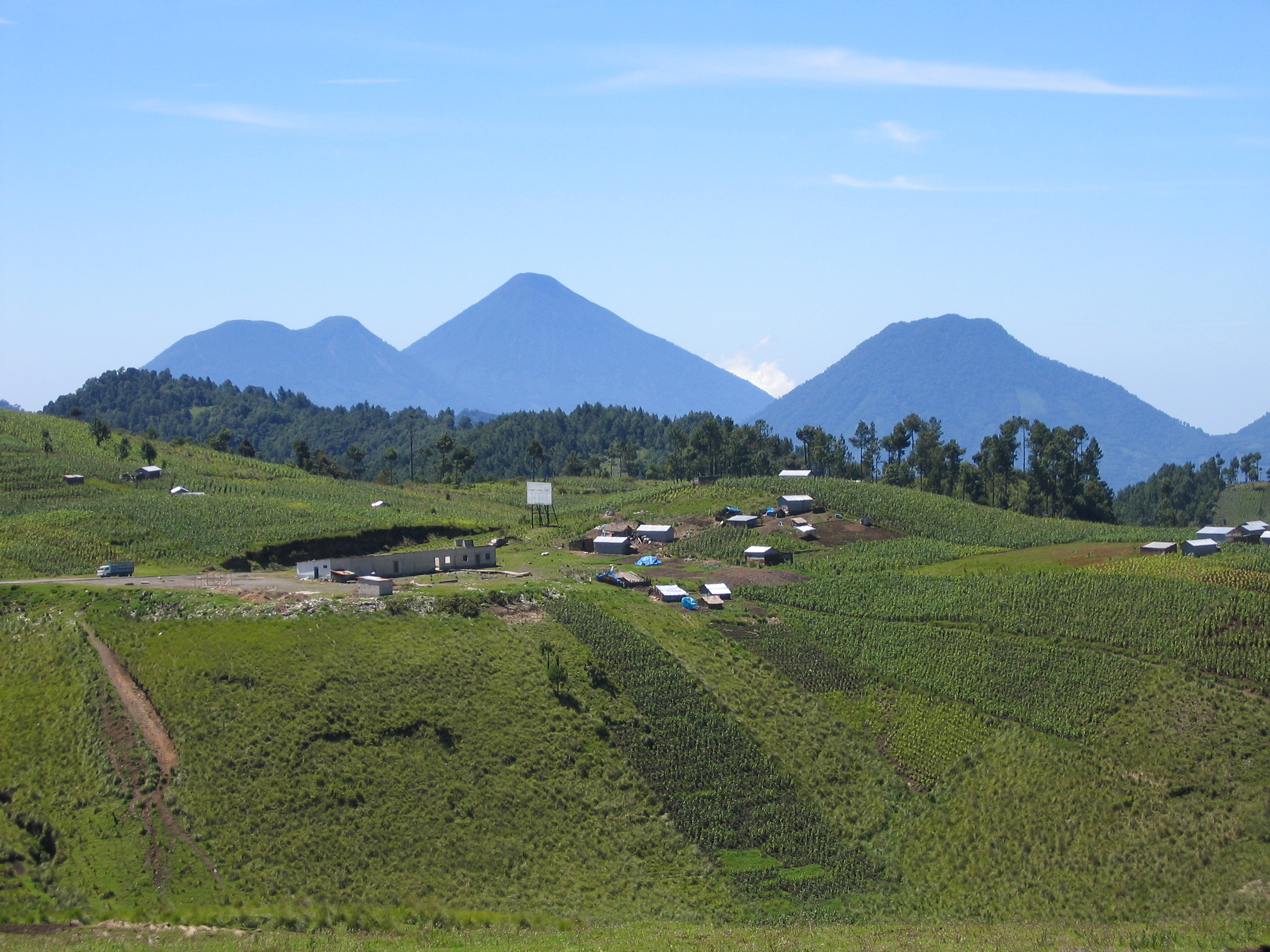 Highlands in Guatemala, August 2006